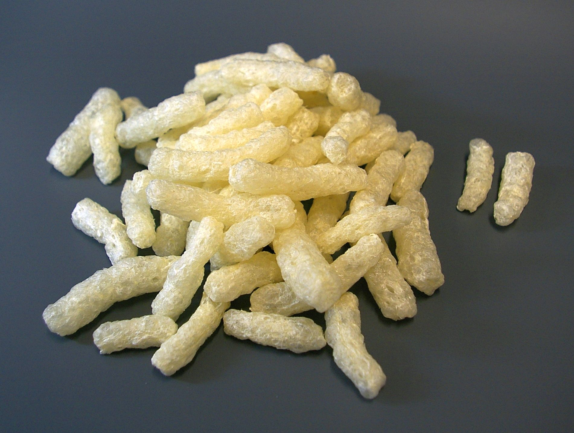 Packaging chips made by bioplastics (Thermoplastic Starch)